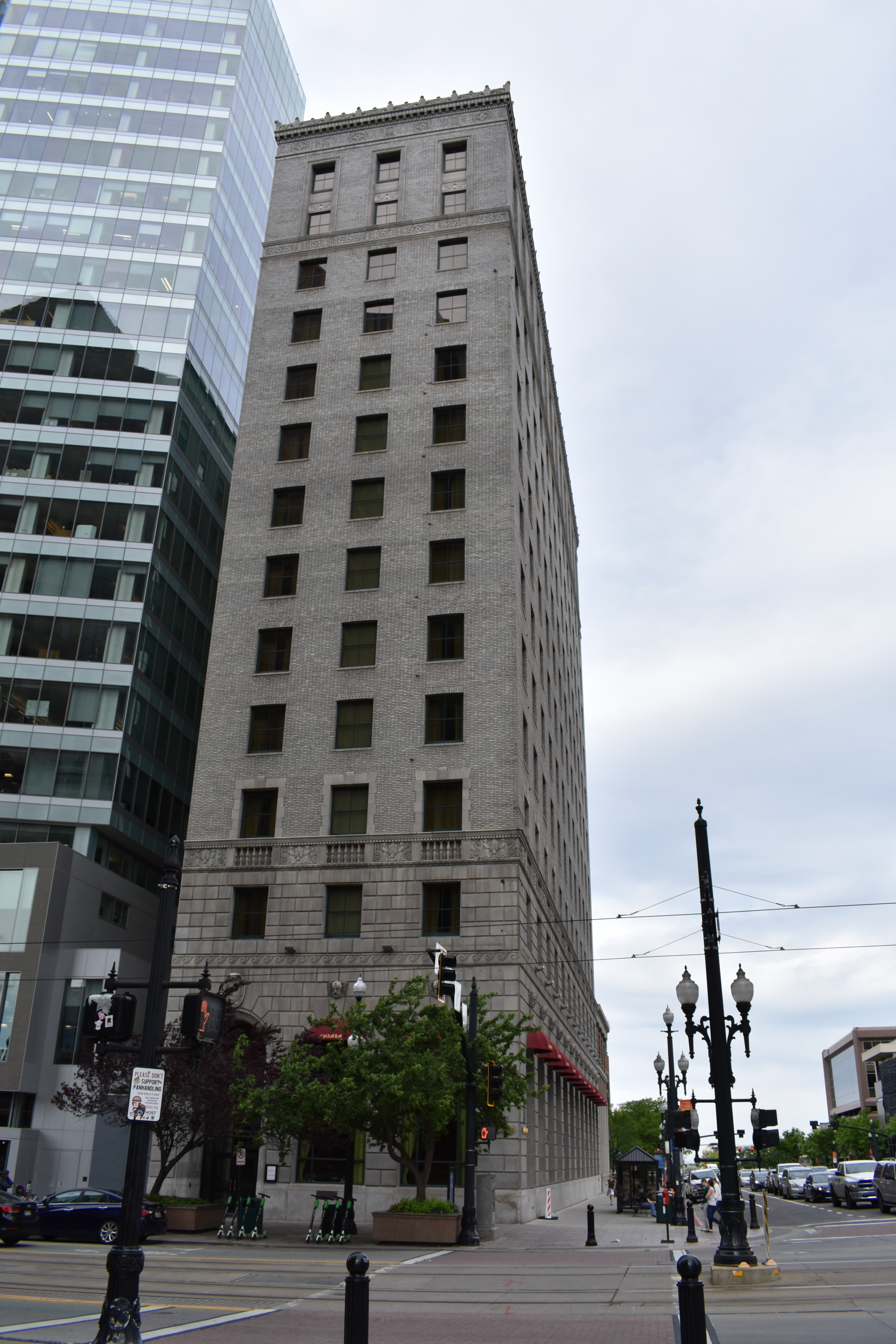 The Continental Bank Building (1924) in Salt Lake City, also known as the Hotel Monaco (1999), is listed on the National Register of Historic Places.